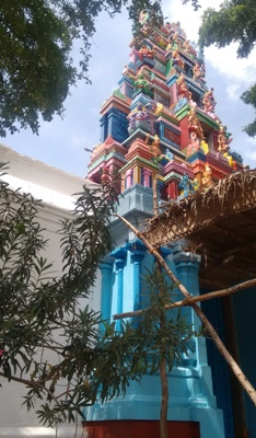 Vadakkuvasal keavadudisvarartemple வடக்குவாசல் கேசவதுதீஸ்வரர்கோயில்